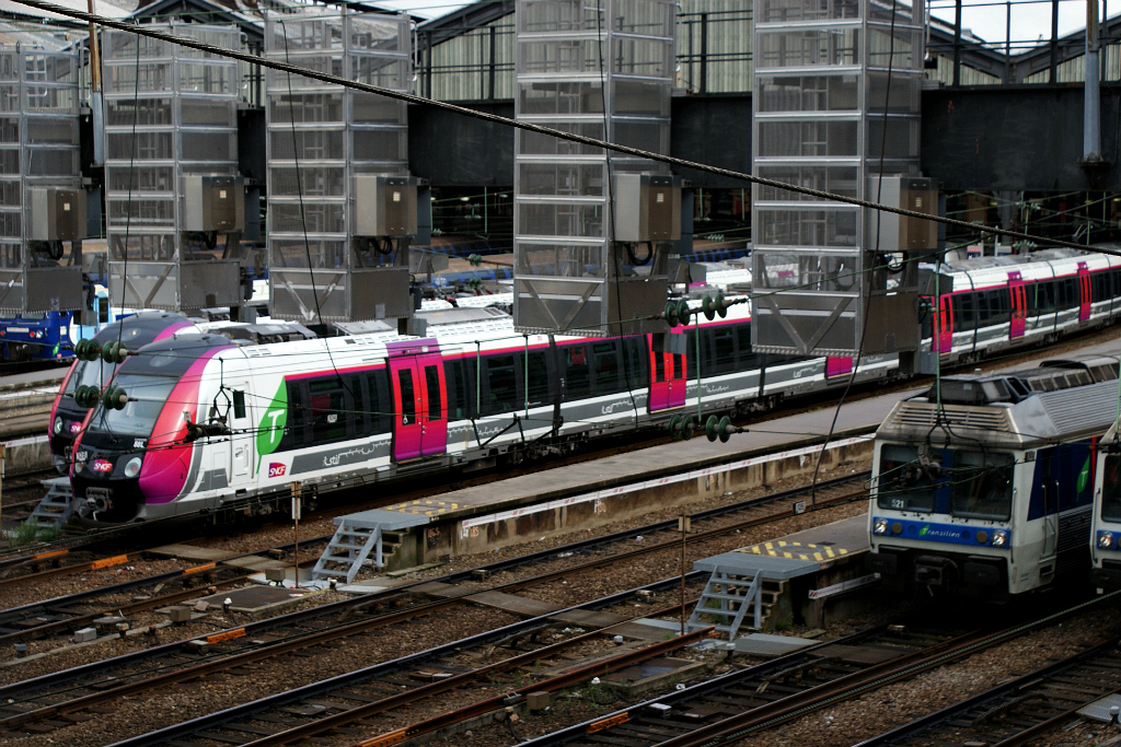 Z 50000 and Z 6400 at Gare Saint-Lazare